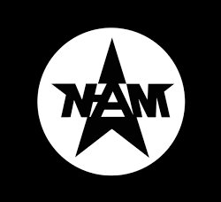 Symbol of the National-Anarchist Movement